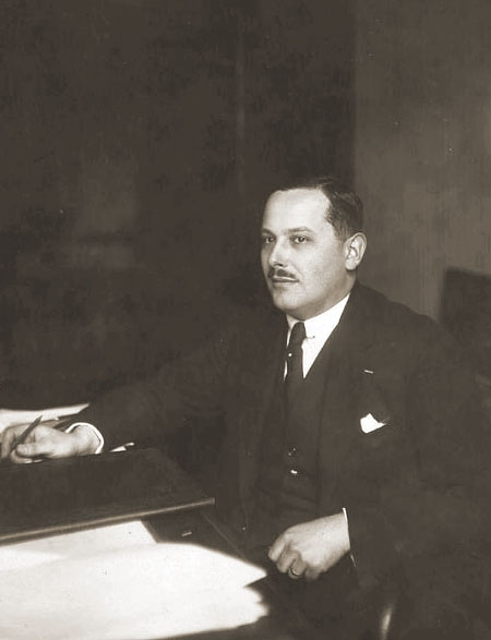 Alfred Poniński Polish diplomat (1896-1968), here in Paris as I secretary of Polish Embassy